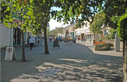 Milngavie town centre.